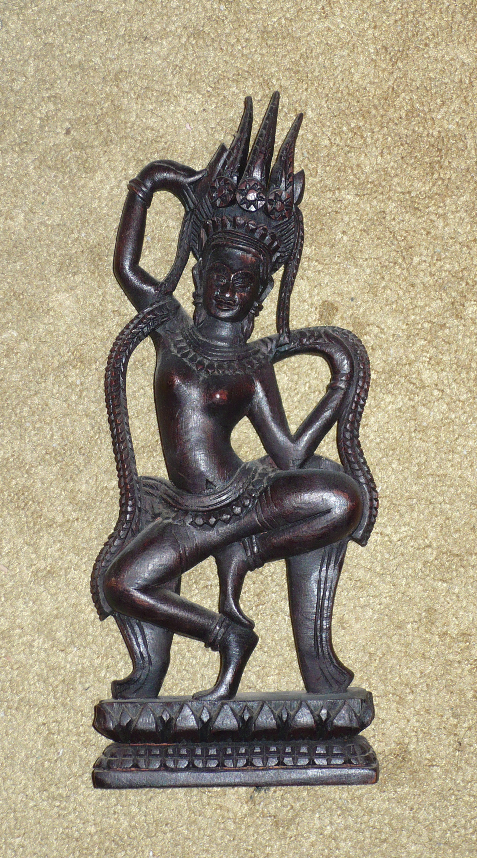 Siem Reap wood carving